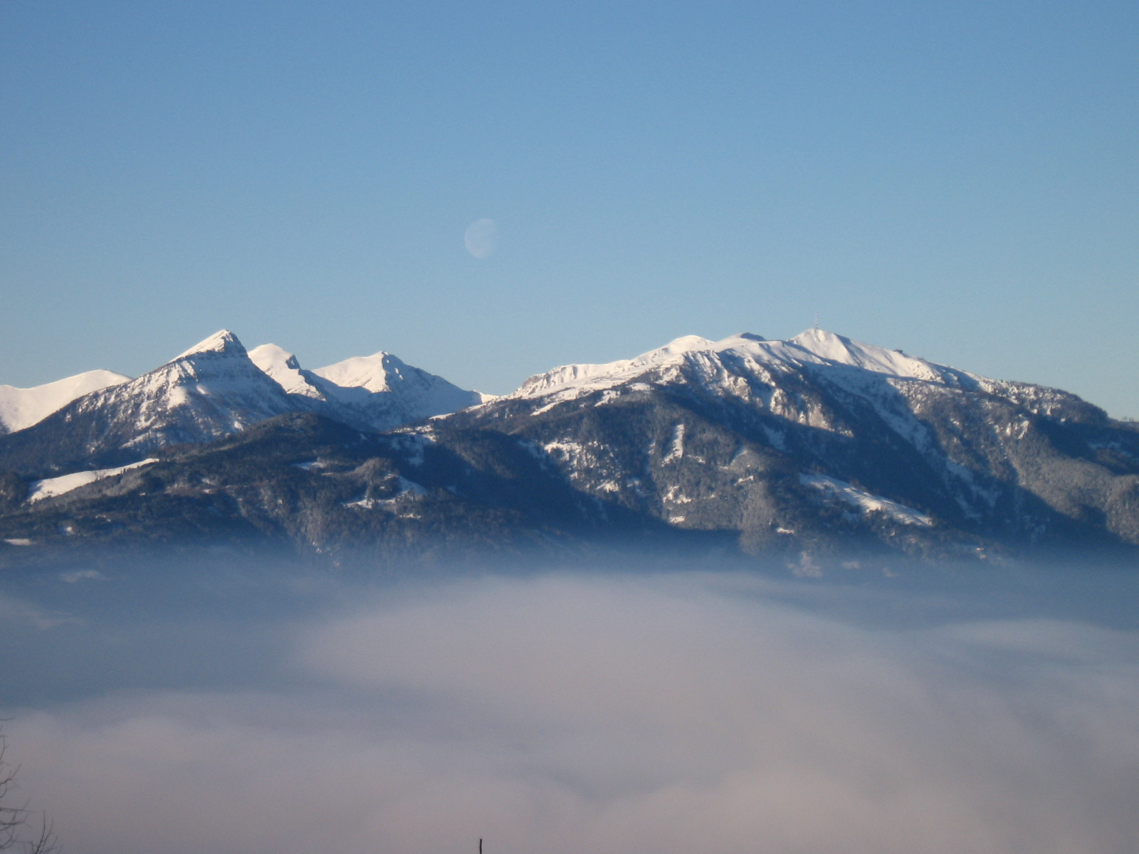 Group of Latschur mountains with Goldeck, from NW slopes of Mirnock, Austrian Carinthia.